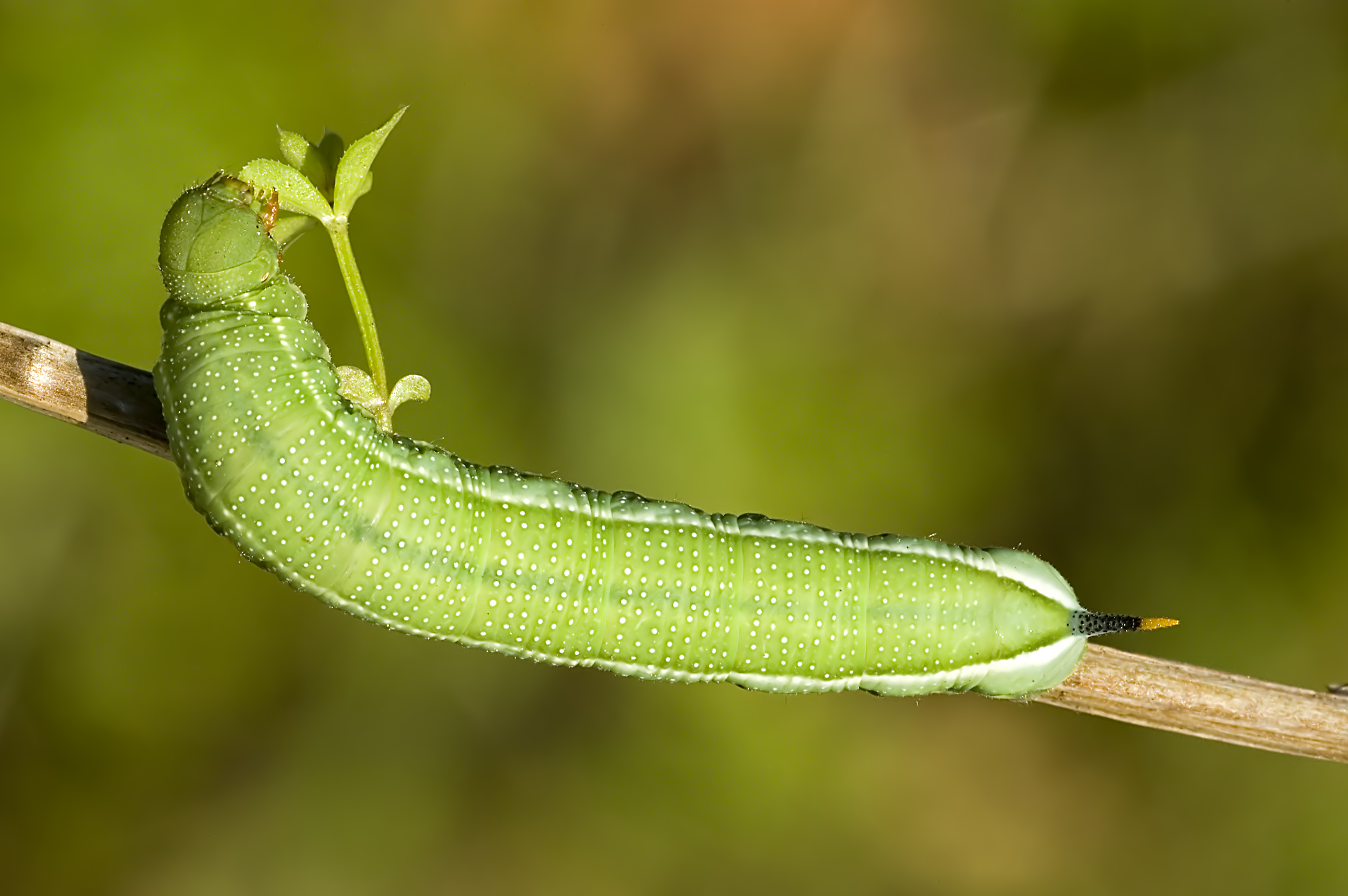 Hummingbird Hawk-moth